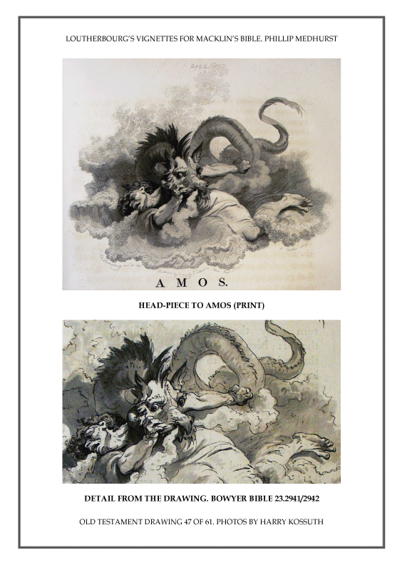 Head-piece to Amos. Amos 9:3. Vignette depicting a man fighting with a dragon; letterpress in two columns below and on verso. 1797. Inscriptions: lettered below image with production detail: "P J de Loutherbourg invt et delt" "J. Fittler sculpt", and publication line: "Published Augst 1 1797, by T Macklin, Fleet Street London". Print made by James Fittler. Dimensions: height: 486 millimetres (sheet); width: 395 millimetres (sheet).